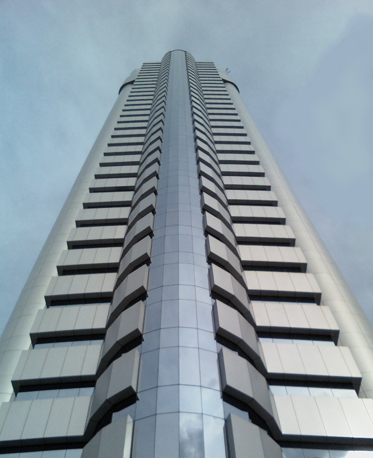 Plaza Centenário Building in São Paulo, Brazil